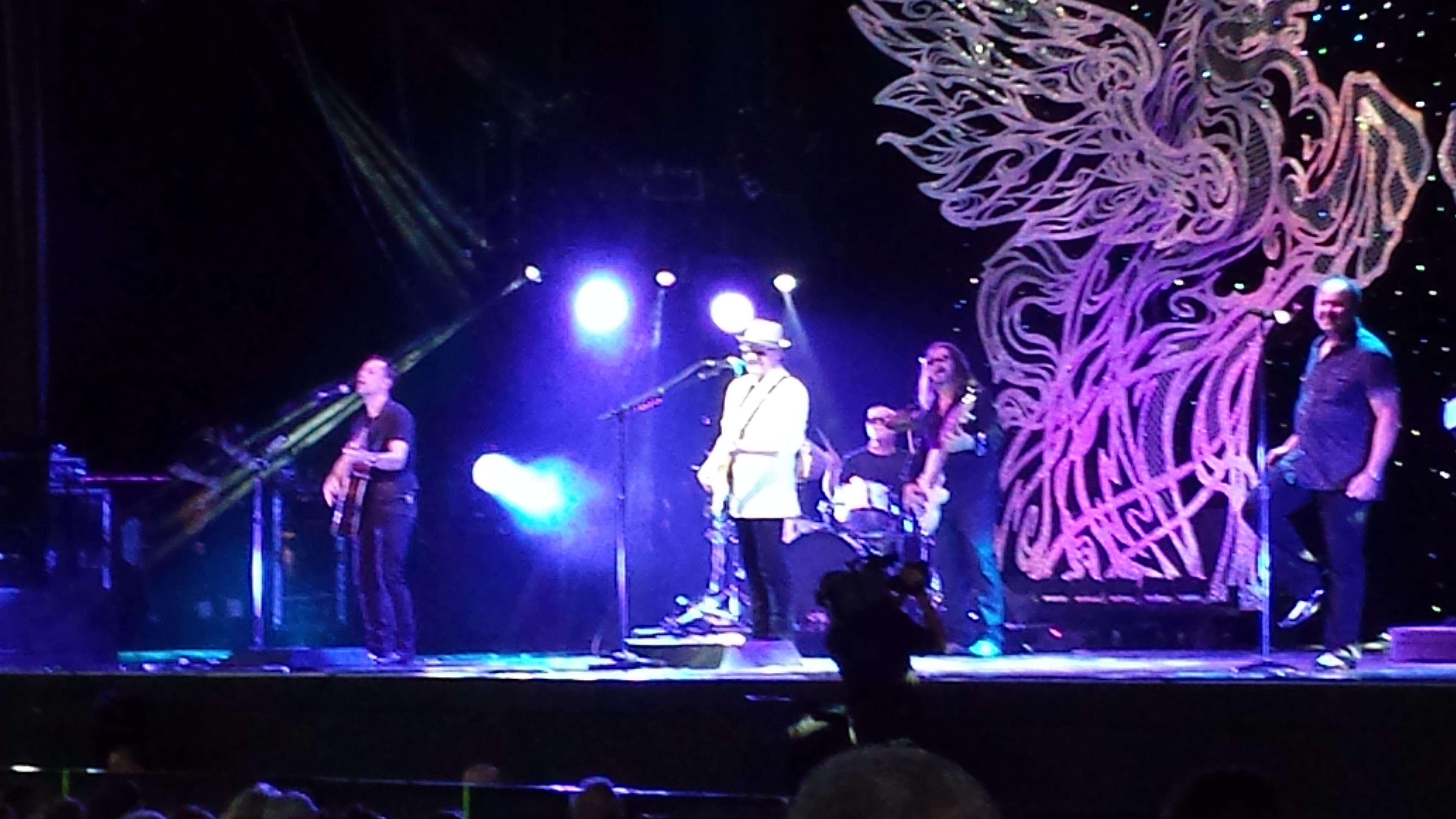 Steve Miller Band, (Miller in white jacket), performing at Farm Bureau Live in Virginia Beach, VA